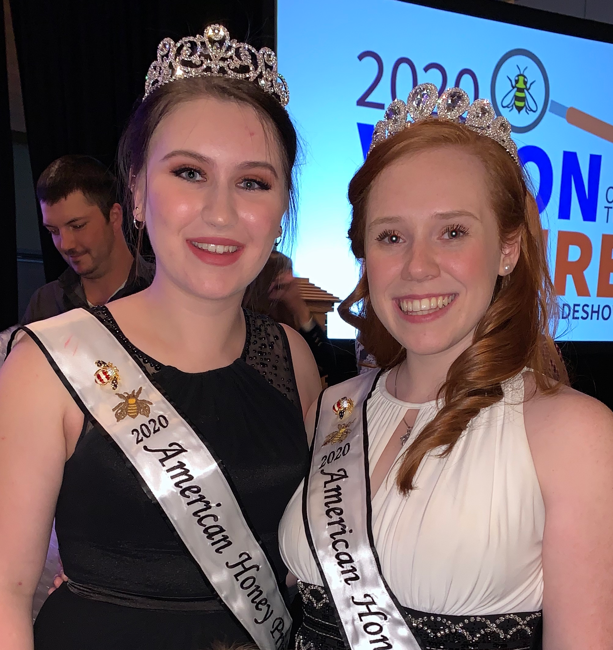 2020 American Honey Princess Sydnie Paulsrud and 2020 American Honey Queen Mary Reisinger moments after coronation.